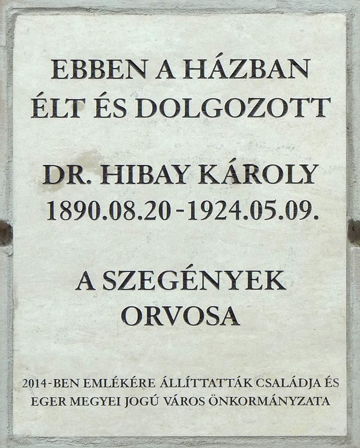 Commemorative plaque to Dr. Károly Hibay (1890–1924) Hungarian chief physician of internal medicine and obstetrics known as "Doctor of the poor". It is affixed to the wall of his former home. (Eger, Érsek Street Nr 16)